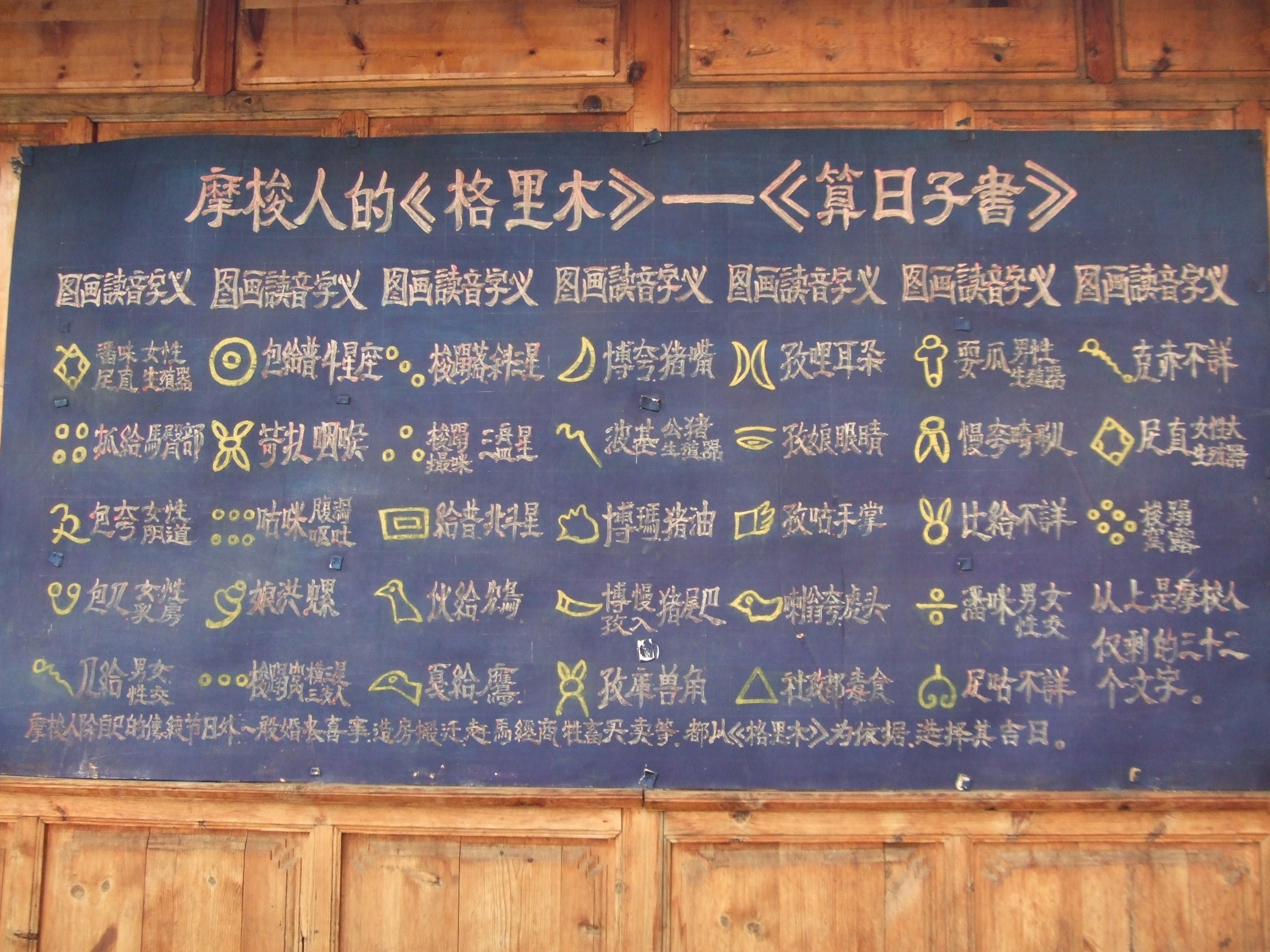 A chart showing the ancient Mosuo symbols and their meanings. Explanation and meanings are written in Chinese. Photo taken at the Mosuo Cultural Museum, Lugu Lake.